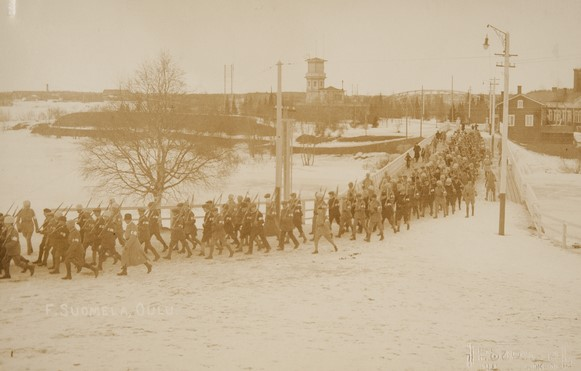 The voluntary Swedish Brigade leaving Oulu for the Battle of Tampere.